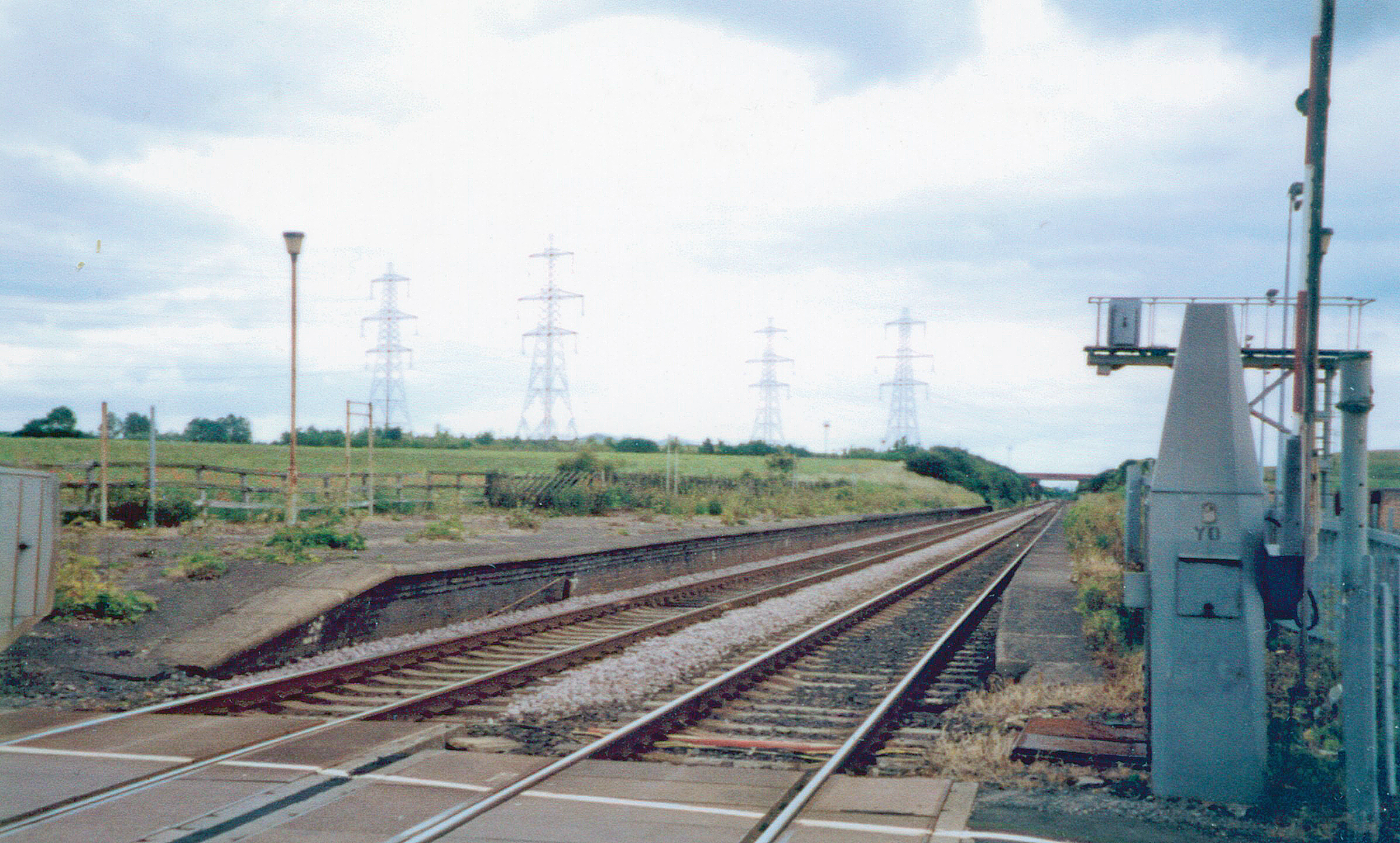 Greatham station remains, 2002. View NE, towards West Hartlepool, Sunderland and Newcastle: ex-NER main line, Stockton etc. - Sunderland - Newcastle. The station had been closed as recently as 25/11/91.